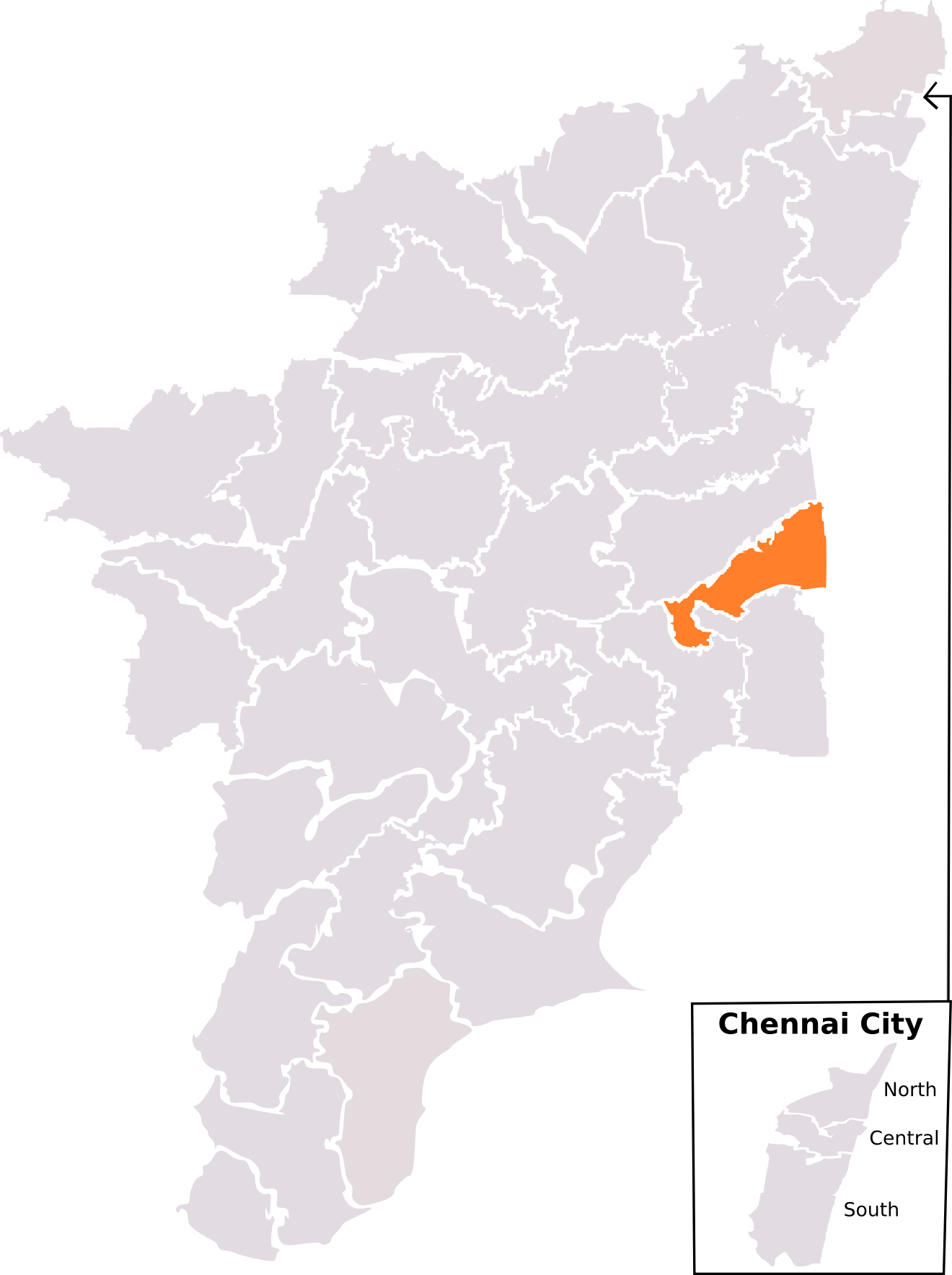 Lok Sabha Election map for Tamil Nadu. Map is based on ECI drawn map. Results are based on ECI website.